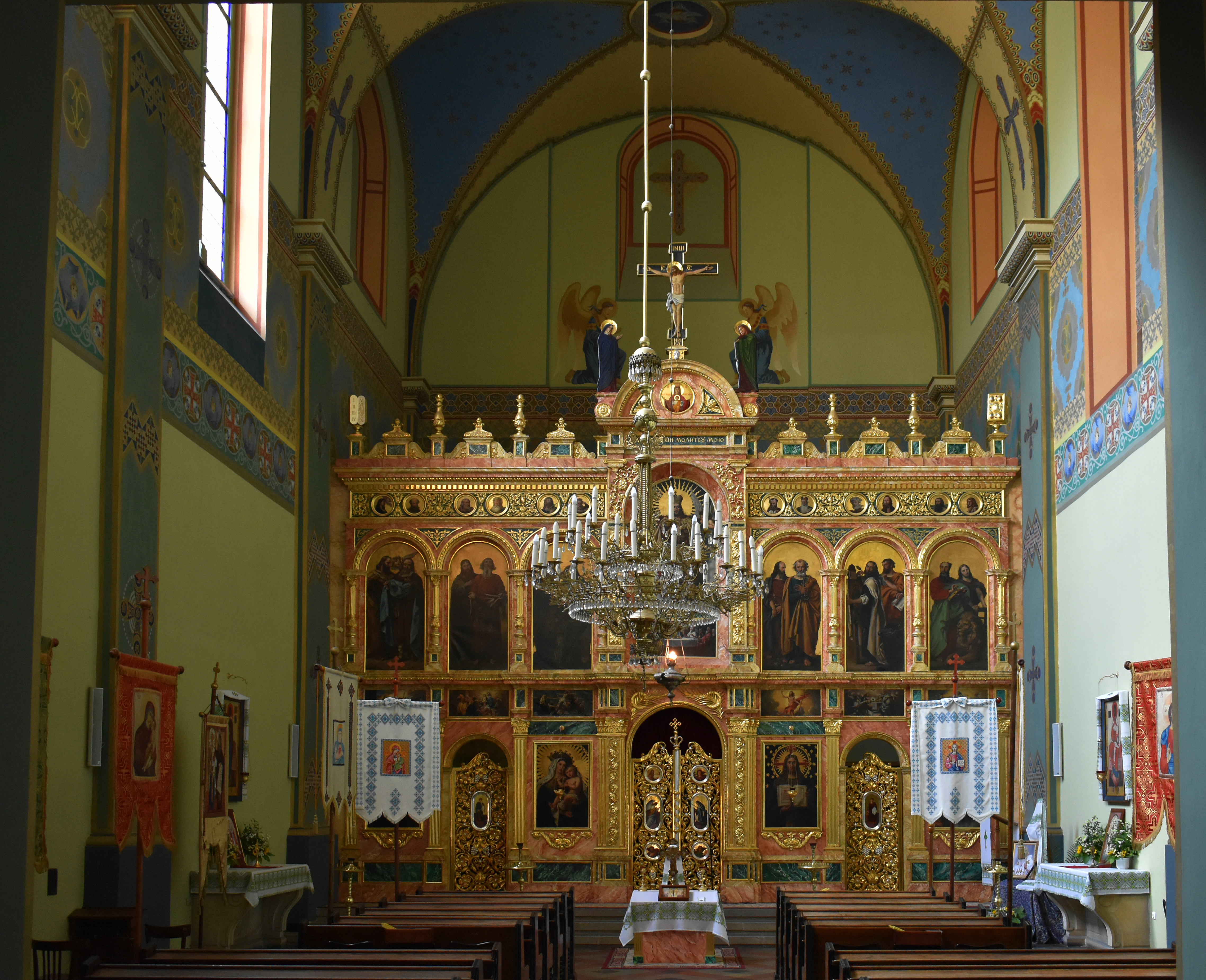 Greek Catholic Church of St.Norbert (Exaltation of the Holy Cross), (interior), 11 Wislna street, Old Town, Krakow, Poland